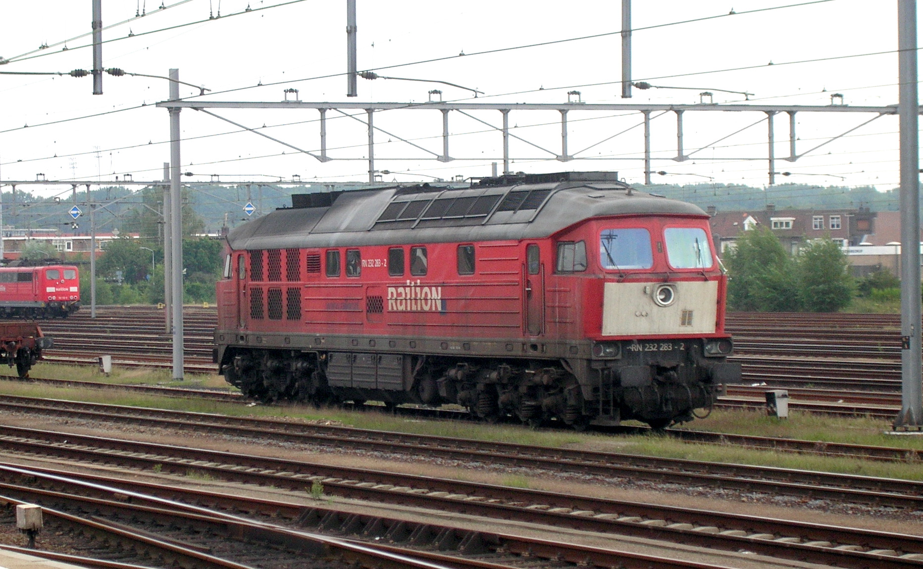 Railion NL RN 232 283 between duties in Venlo, The Netherlands.